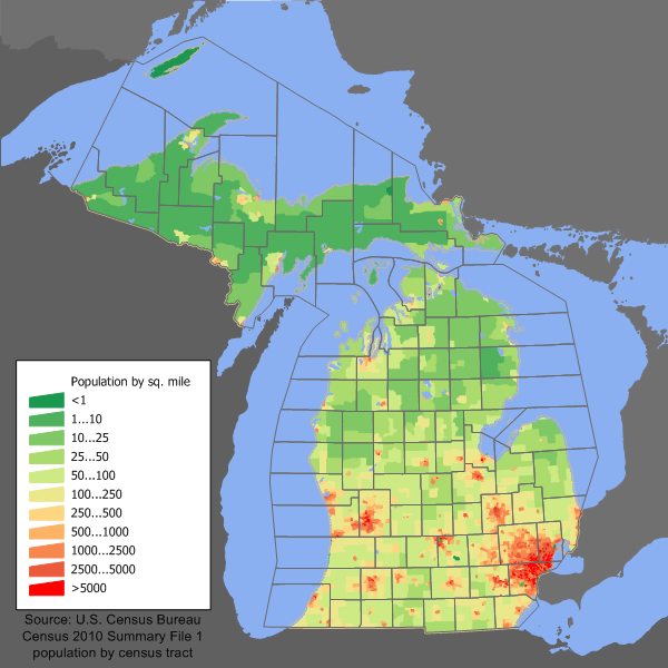 Category:U.S._State_Population_Maps Category:Michigan maps Population density map based on Census 2010. See the data lineage for a process description.